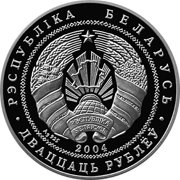 "The Radziwills' Castle. Nesvizh" Niasvizh". Silver commemorative coins, denomination: 20 rubles